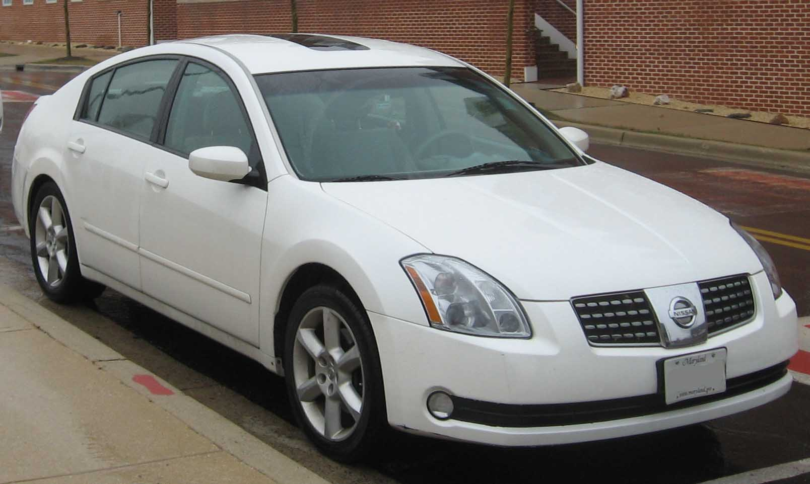 2004-2006 Nissan Maxima photographed in College Park, Maryland, USA.